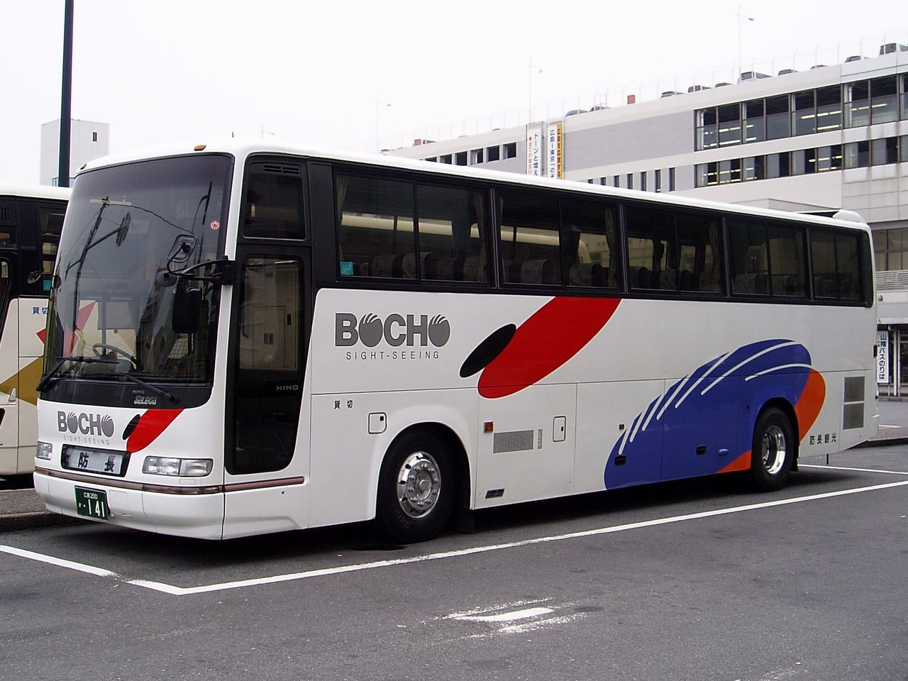 Bocho Kanko Bus Hino KC-RU4FSCB at Hiroshima Sta.